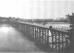 This is Kaimon bridge in Ibaraki prefecture, Japan.